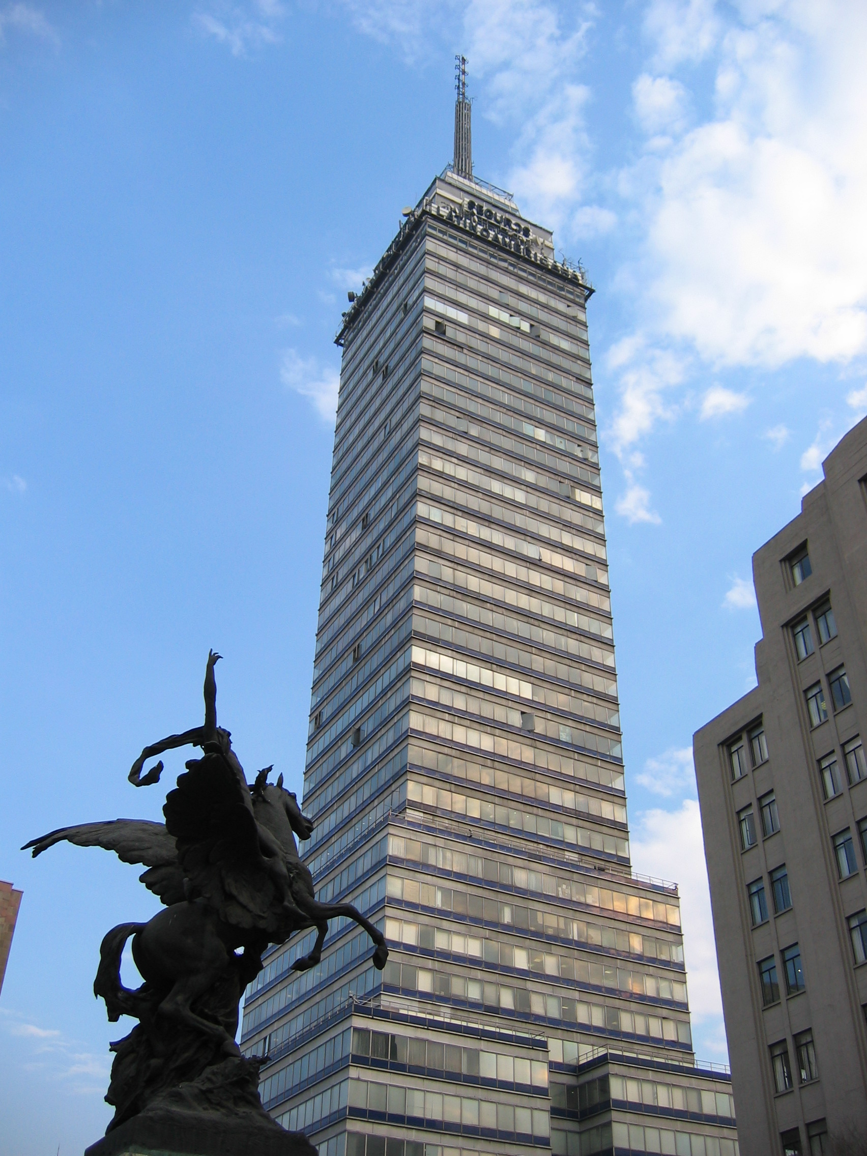 Author: Daniel Manrique (Roadmaster). Photo taken expressly for wikipedia. Description: Torre Latinoamericana building in Mexico City, as seen from street level. Location: Downtown Mexico City.